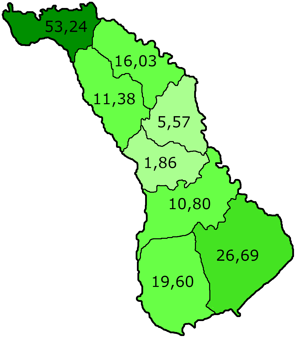 Ukrainian language in Bessarabia Governorate according to 1897 census.